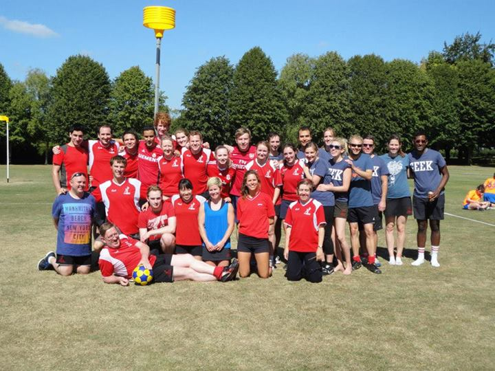 Highbury summer tournament